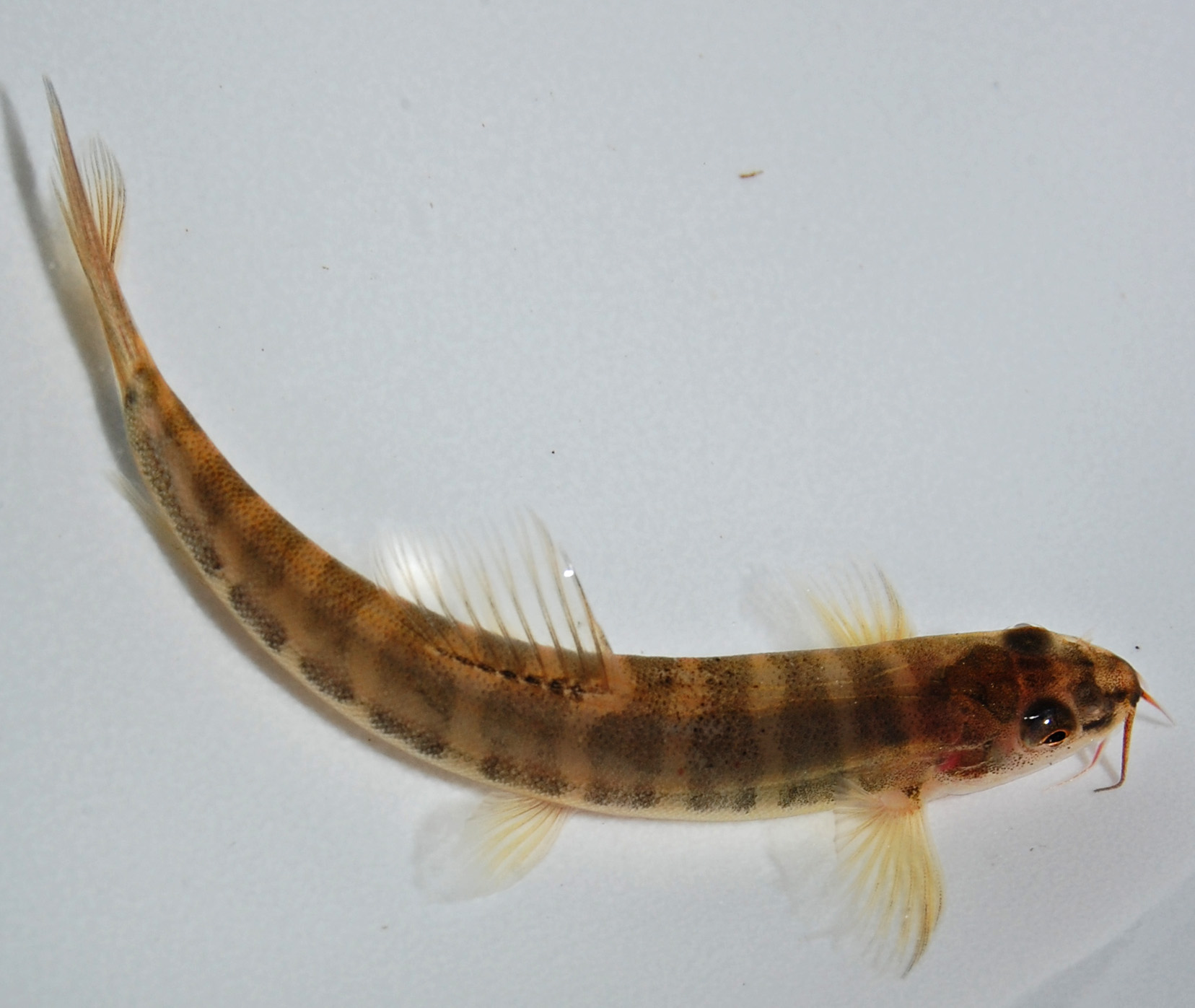 Nemacheilus chrysolaimos (38mm SL). From Cikupret, small stream on Cisadane River drainage. Darmaga, Bogor, West Java, Indonesia